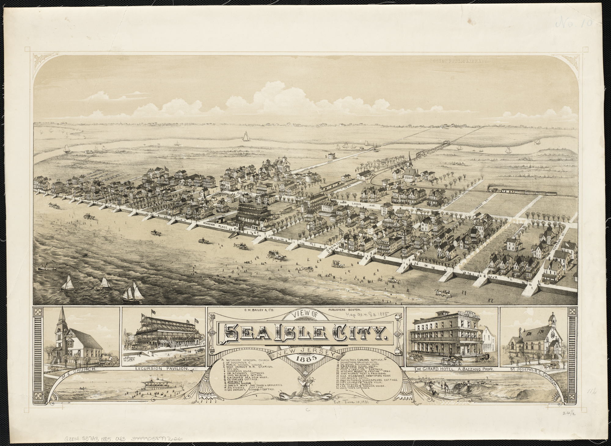 Zoom into this map at . Author: O.H. Bailey & Co. Publisher: O.H. Bailey & Co. Date: 1885 Location: Sea Isle City (N.J.) Scale: Not drawn to scale. Call Number: G3814.S37A3 1885.O43